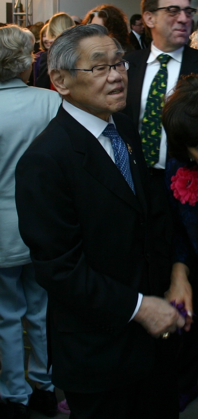 Norman Kwong